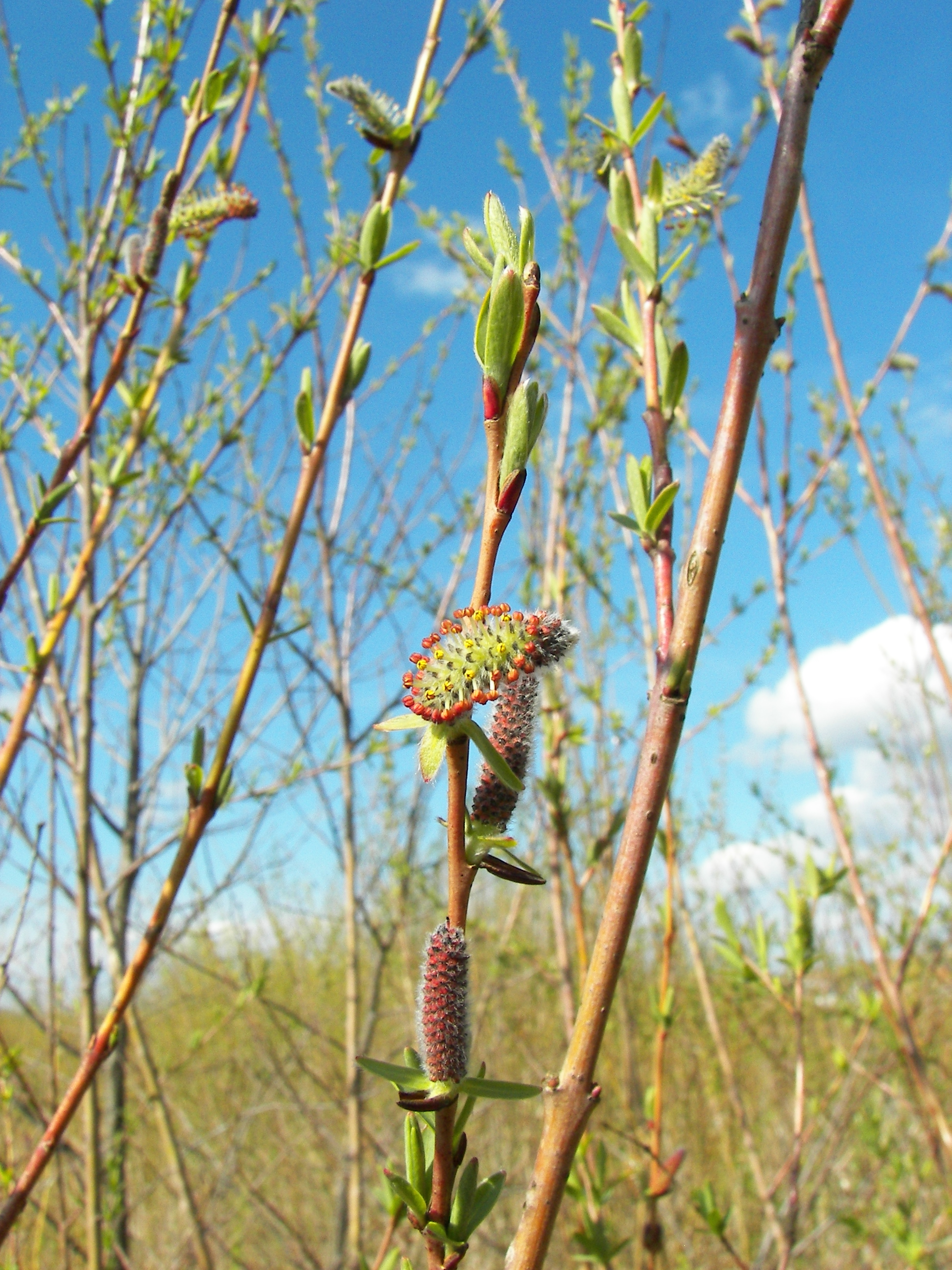 Purple Willow (Salix purpurea), male catkins, Location: Lahntal-Goßfelden, Hesse, Germany